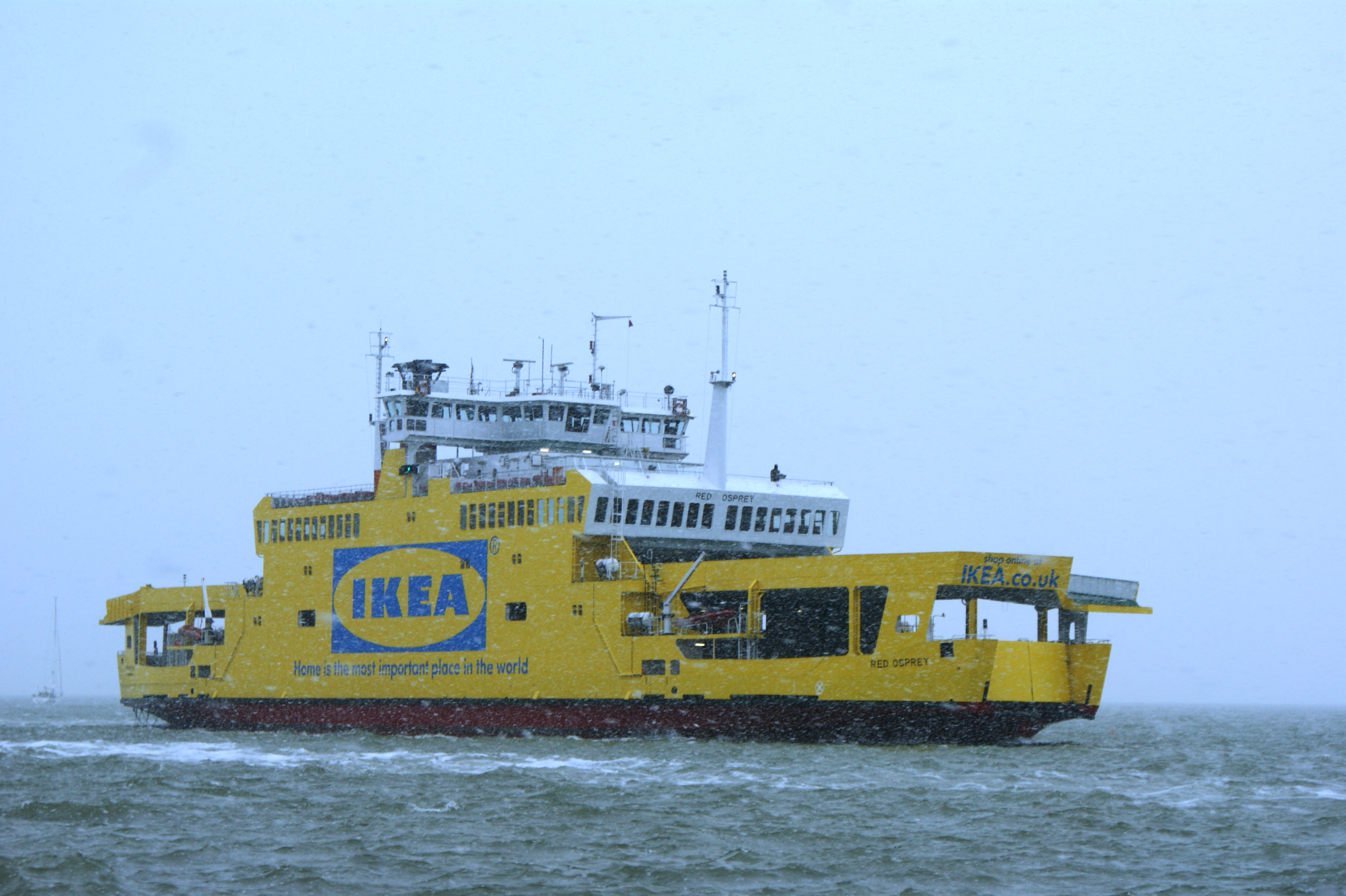 The Red Osprey in her newly applied IKEA livery to celebrate the opening of an IKEA store in Southampton. IMO Number: 9064059 MMSI Number: 235006680 Callsign: MTRL5 Length: 94 m Beam: 18 m